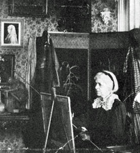 Charlotte Mount Brock Schreiber (1834-1922) Painter